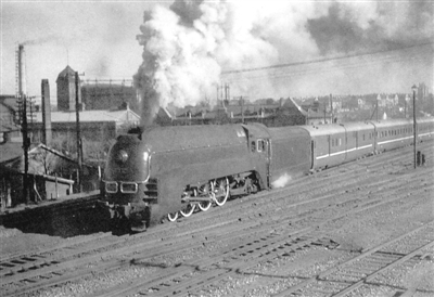 Asia Express was running on the South Manchuria Railway.